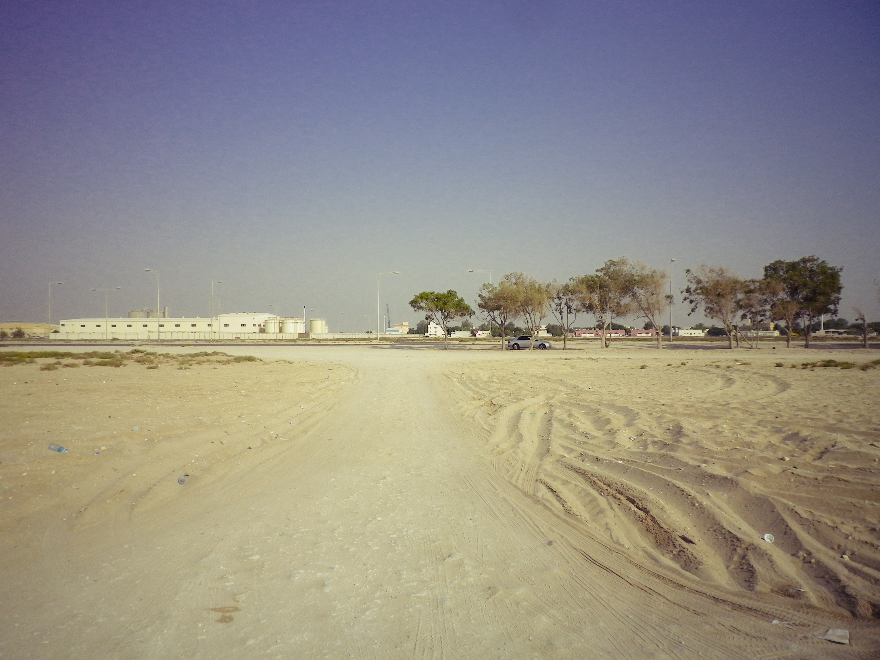 Beach near Old Town Area, Umm Al Quwain.Beach near Labour Camp